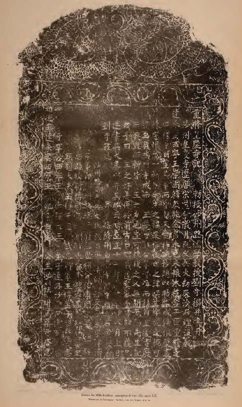 Stele of Yahansha, erected at the Mogao Caves in 1348 to commemorate the restoration of the Huangqing Temple by Yahansha, Prince of Xining.